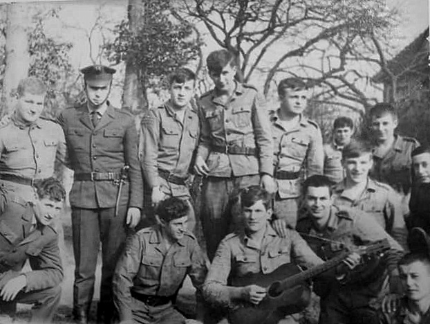 Border Protection Forces in Ustronie Morskie